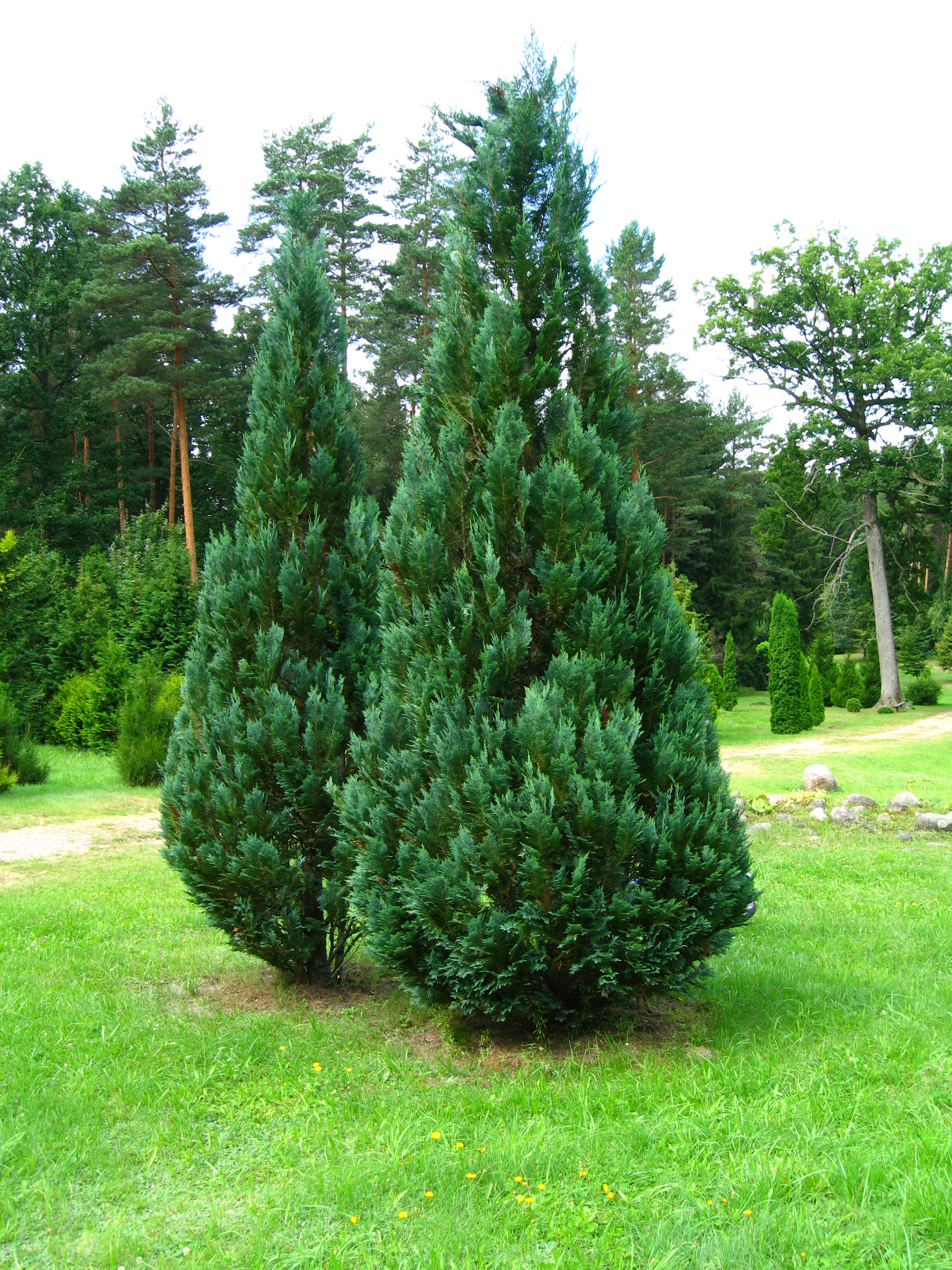 Lawson's Cypress var. Columnaris (Chamaecyparis lawsoniana 'Columnaris')